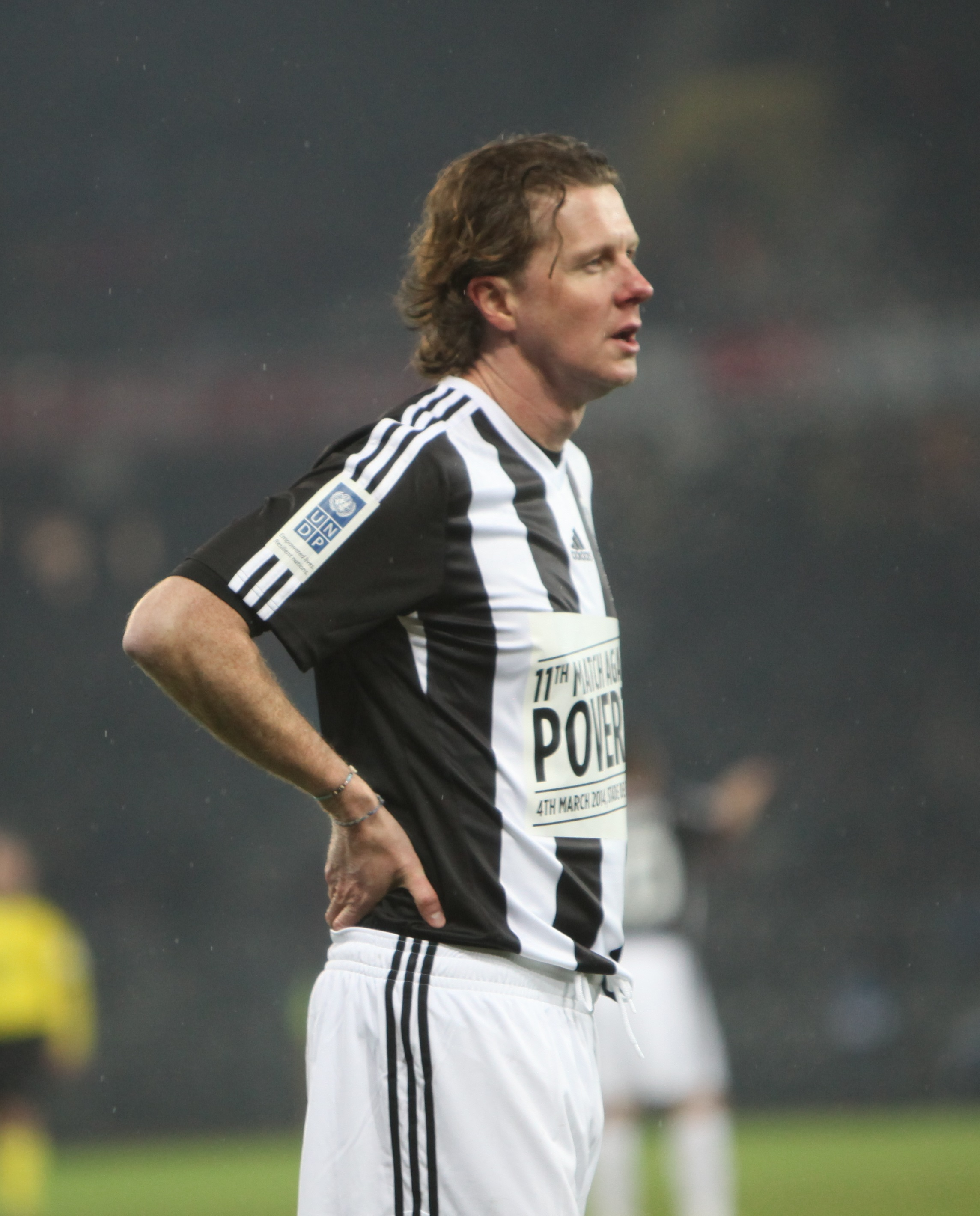 Football against poverty 2014 - Steve McManaman